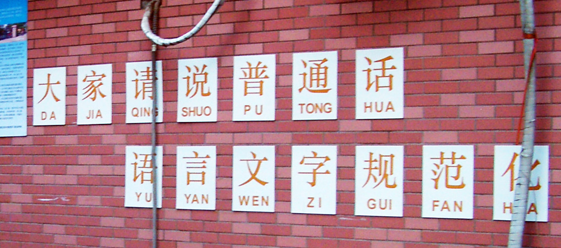 The yard of a kindergarten in the old part of Shanghai (near the mosque), graced with a slogan: "大家请说普通话,语言文字规范化" "Dajia qing shuo Putonghua / Yuyan, wenzi, guifanhua!". ("Let's everybody speak Standard Mandarin, [and] standardize speech and spelling!")